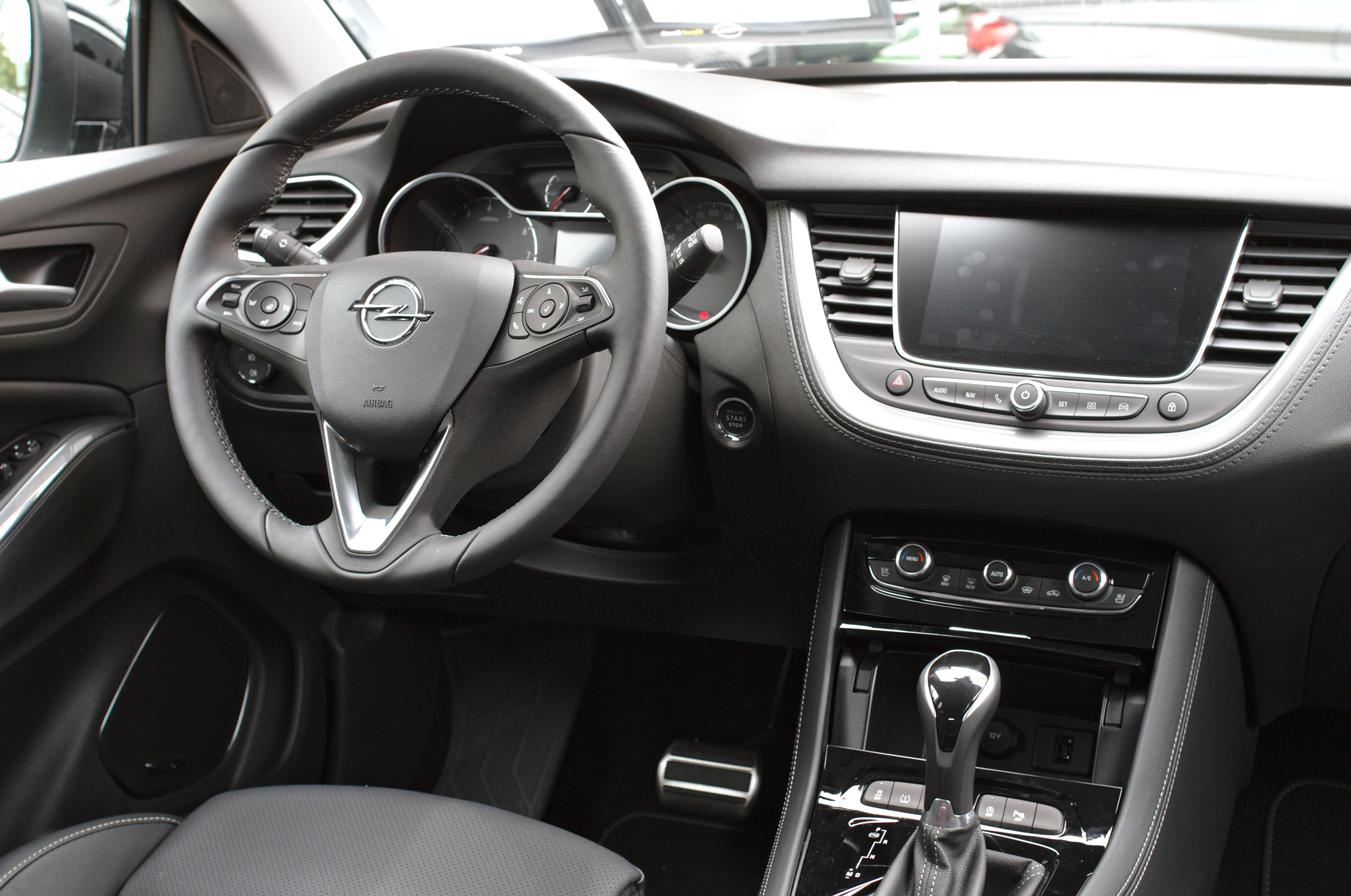 Opel_Grandland_X at Leonberger Autoschau 2019